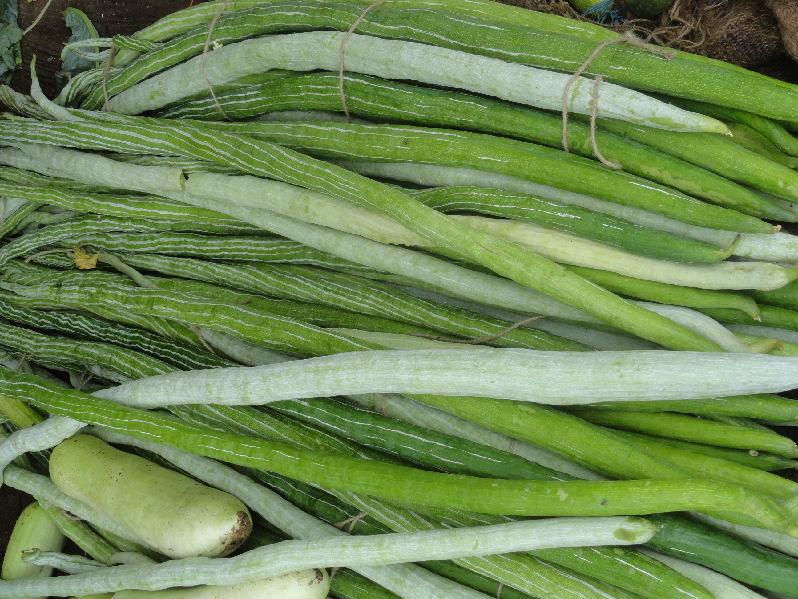 పొట్ల కాయలు.